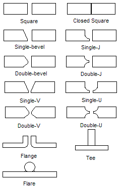 Geometry of Butt Welds